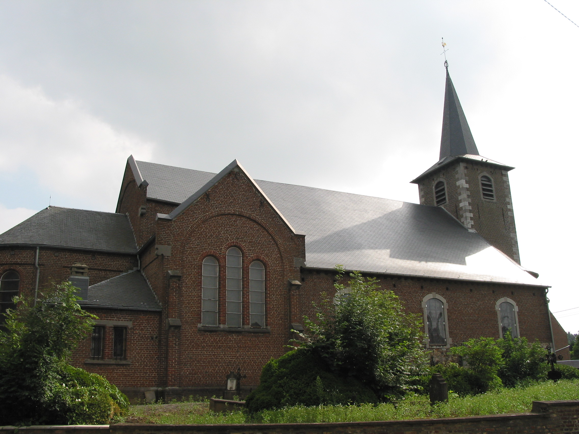 Liernu (Belgium), the St. John the Baptist church (XVIIIth century).